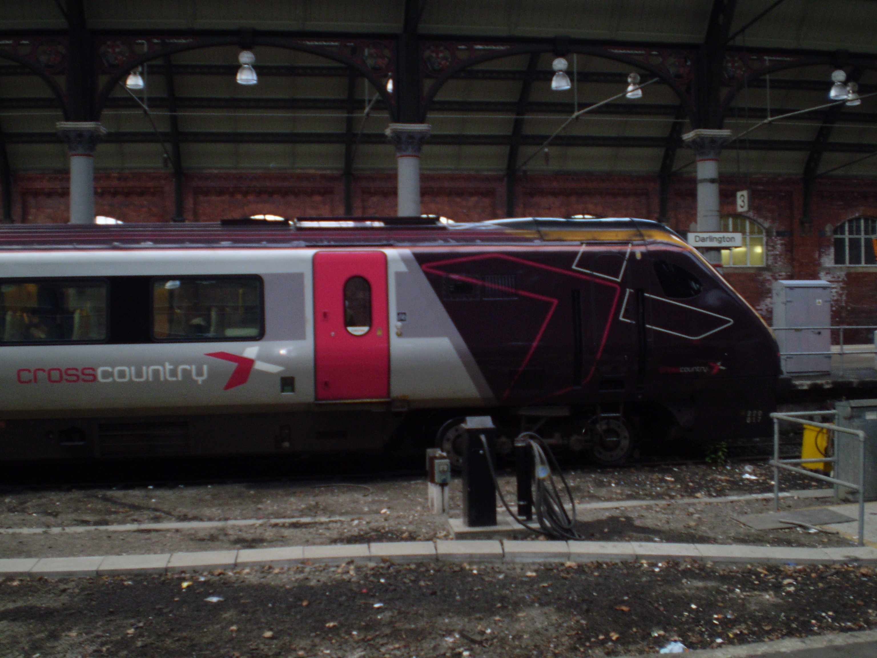 CrossCountry British Rail Class 220 number 220017 at Darlington railway station.